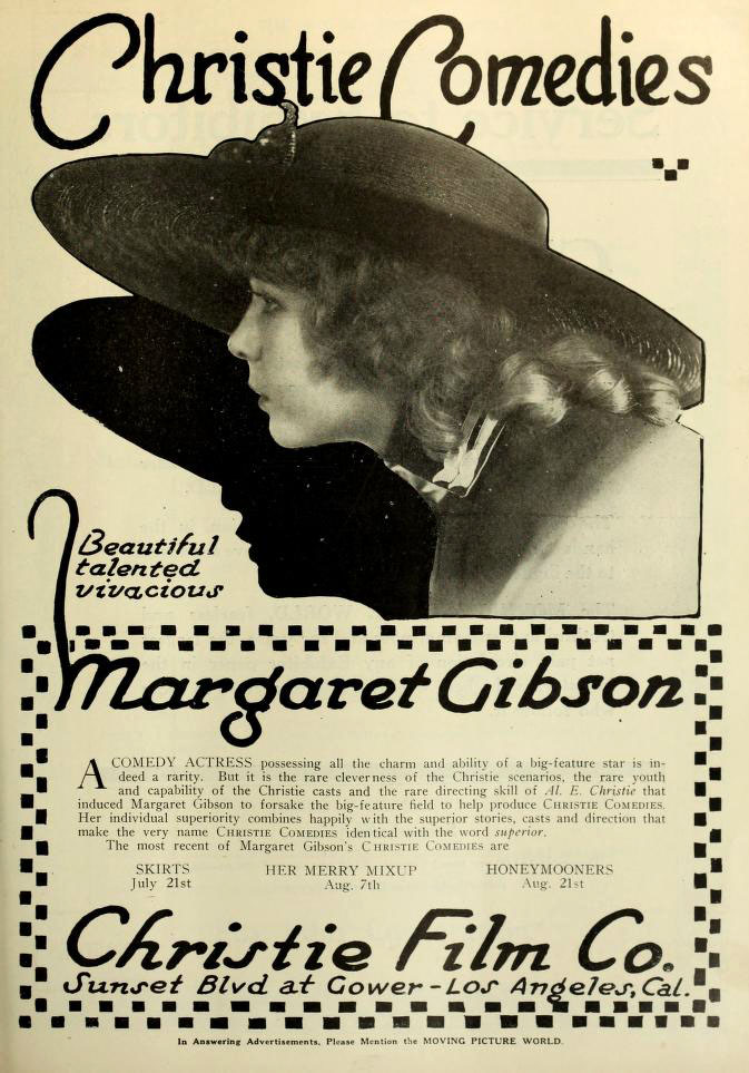 Advertisement in Moving Picture World, August 1917